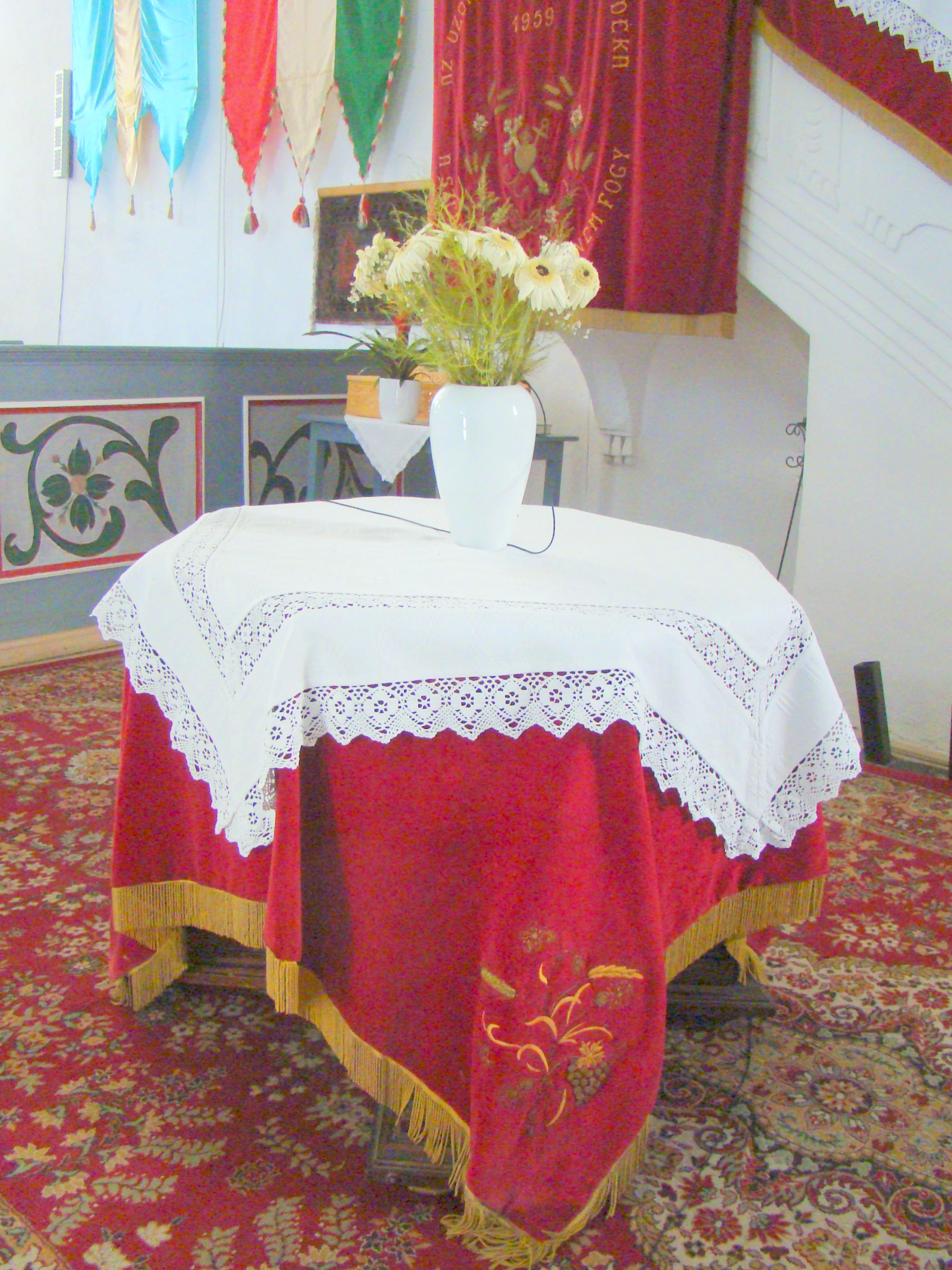 Reformed church in Ozun, Covasna County, Romania